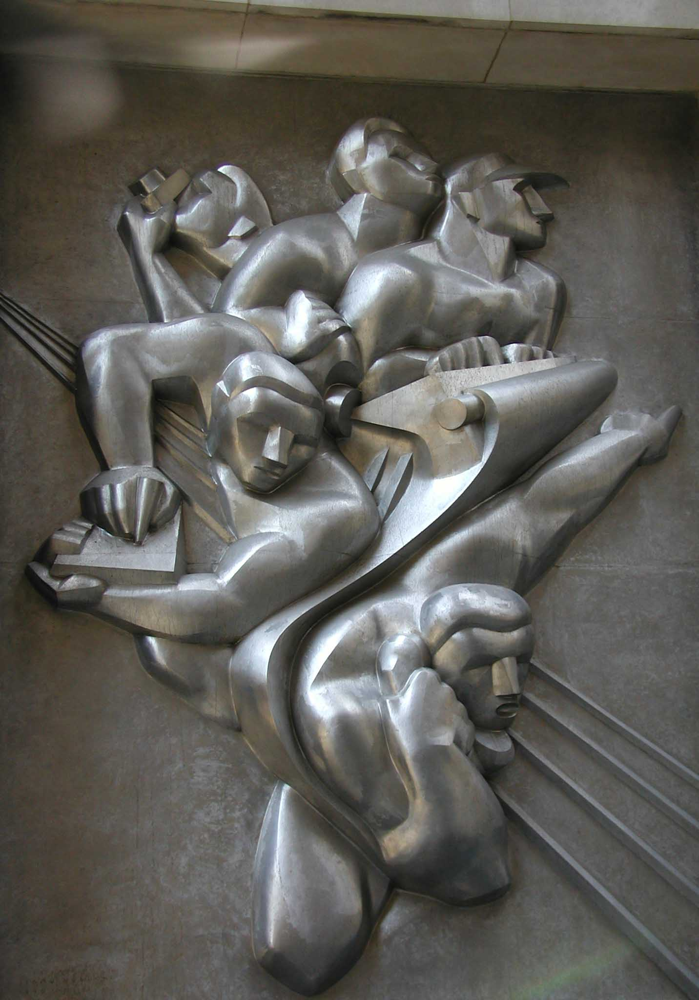 Detail from the Rockefeller center, July 2006